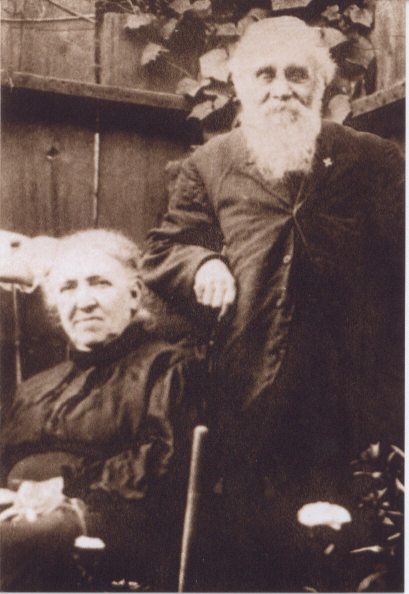 Henry Fox and wife